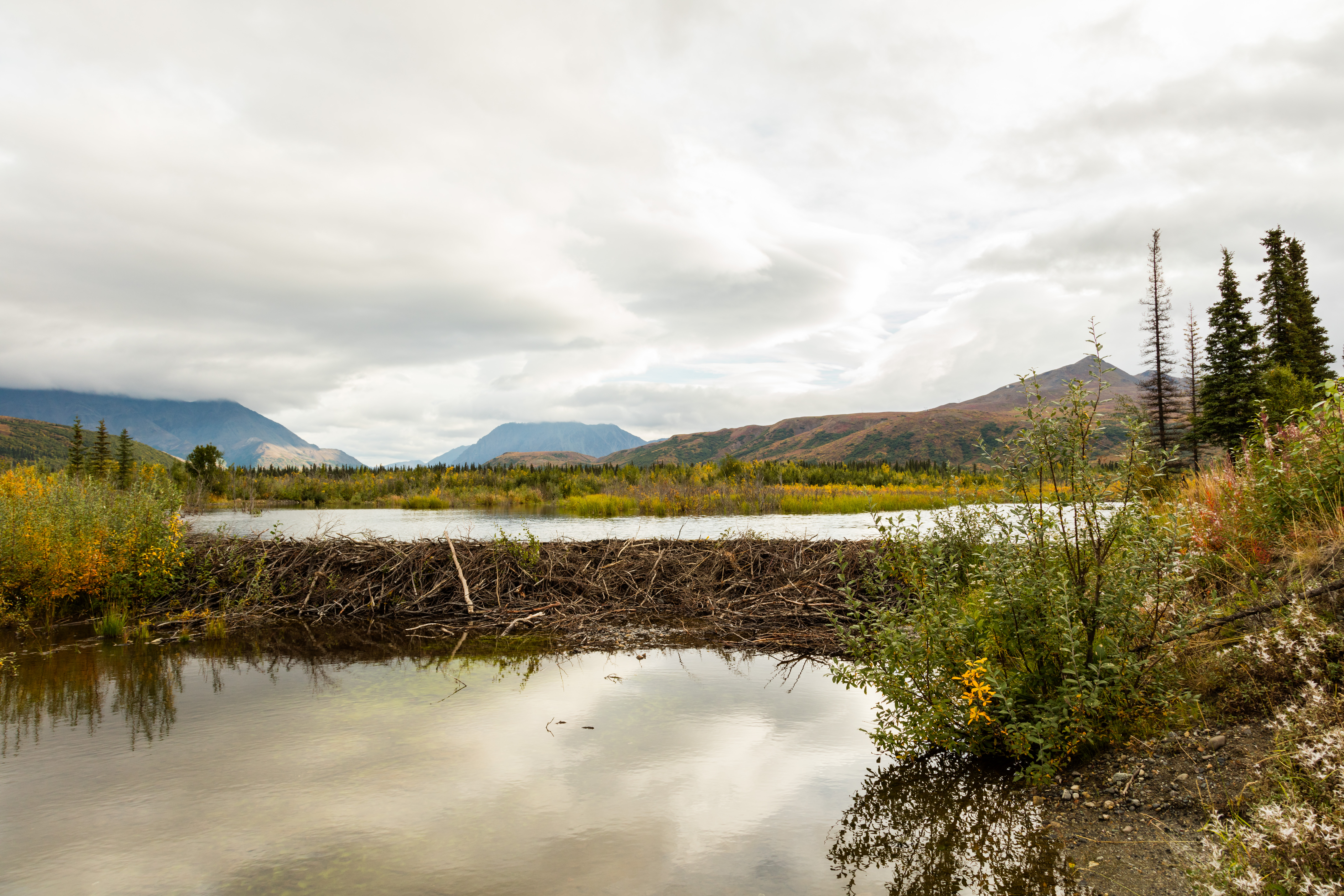 Affluent of Nenana River, McKinley Park, Alaska, United States